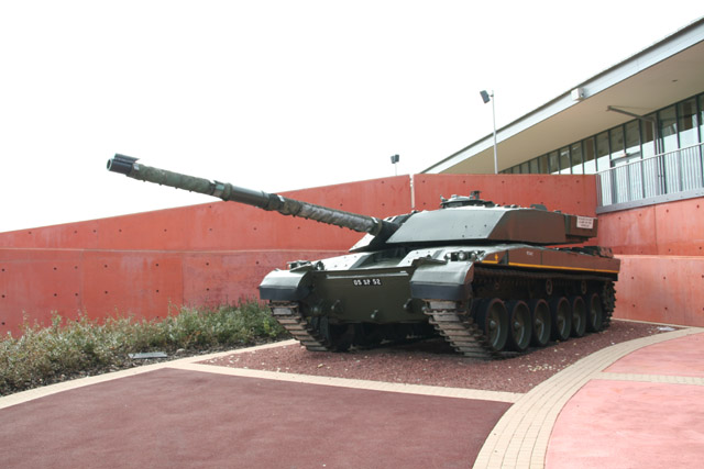 Tank outside the Tank Museum Near to the main entrance.